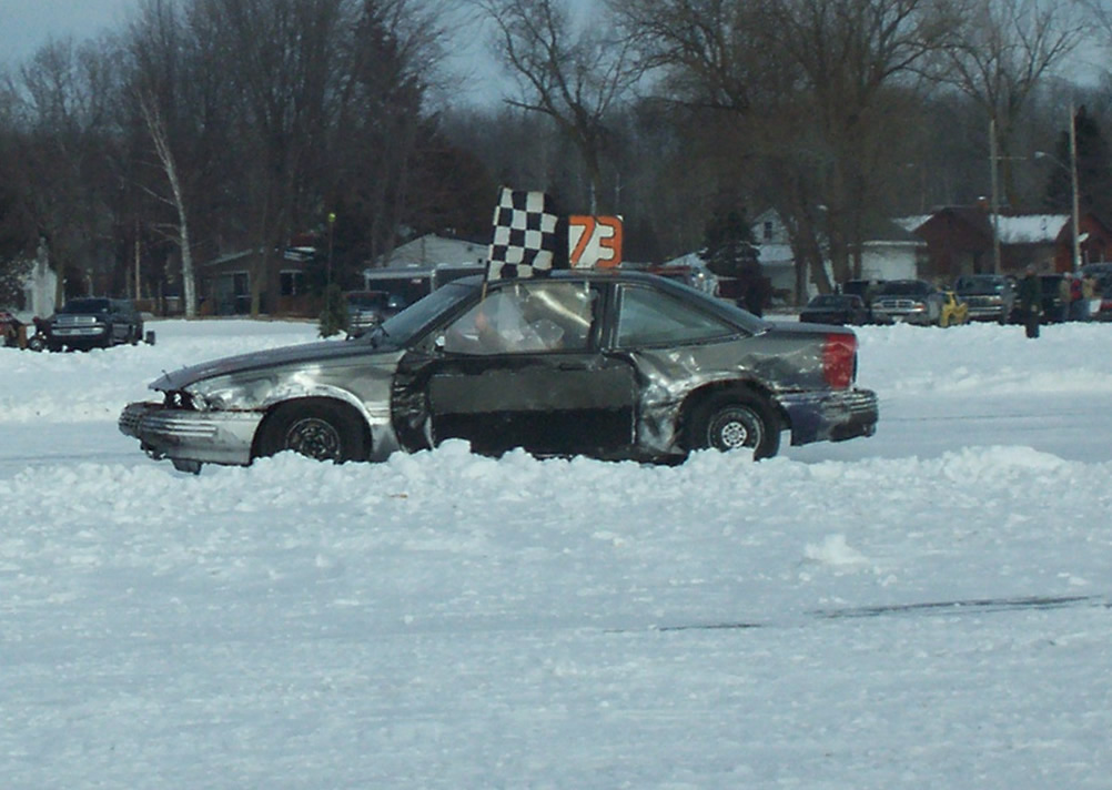 A winning driver taking a "Polish Victory Lap". At the "Fire on Ice" ice racing on Shawano Lake near Cecil, Wisconsin, United States. The photograph was taken from outside of the track, and the driver is driving in the opposite direction of normal to salute the fans.